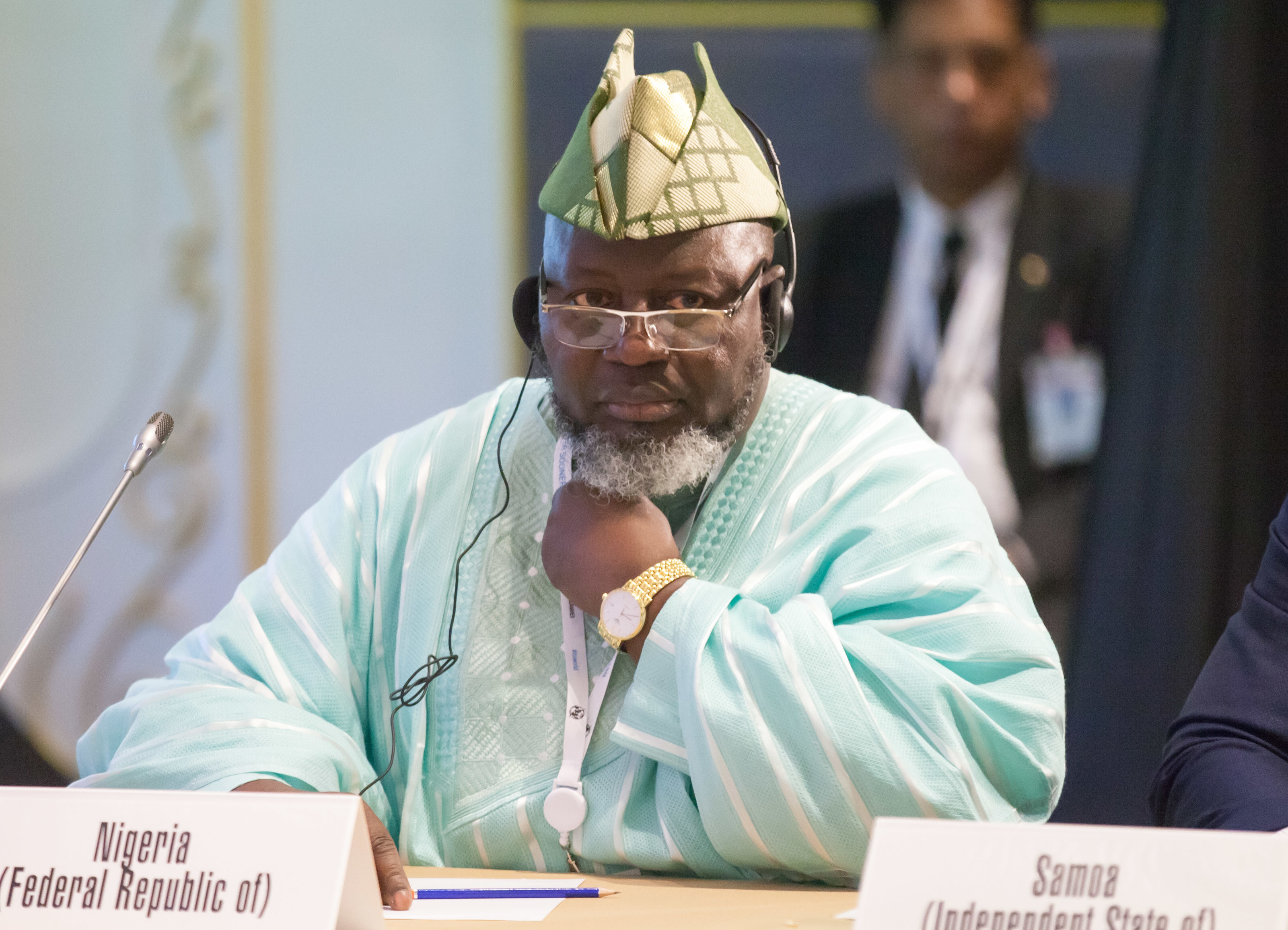 Abdur-Raheem Adebayo Shittu, Minister of Communications of Nigeria at the ITU Telecom World 2016 in Bangkok.